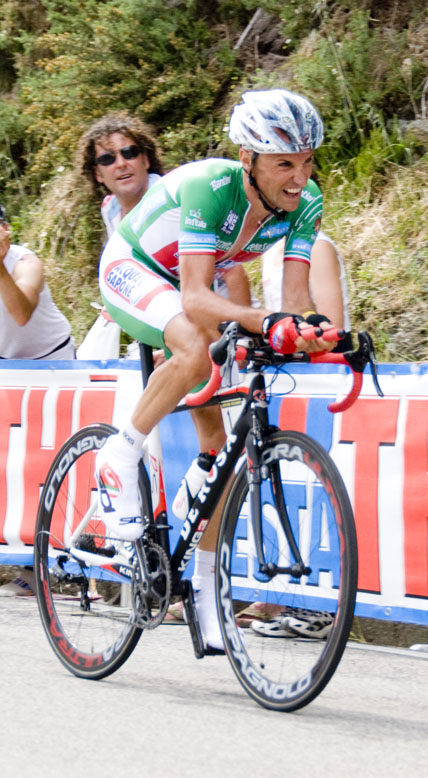 Stefano Garzelli, Cinque Terre Time Trial, 2009 Giro d'Italia